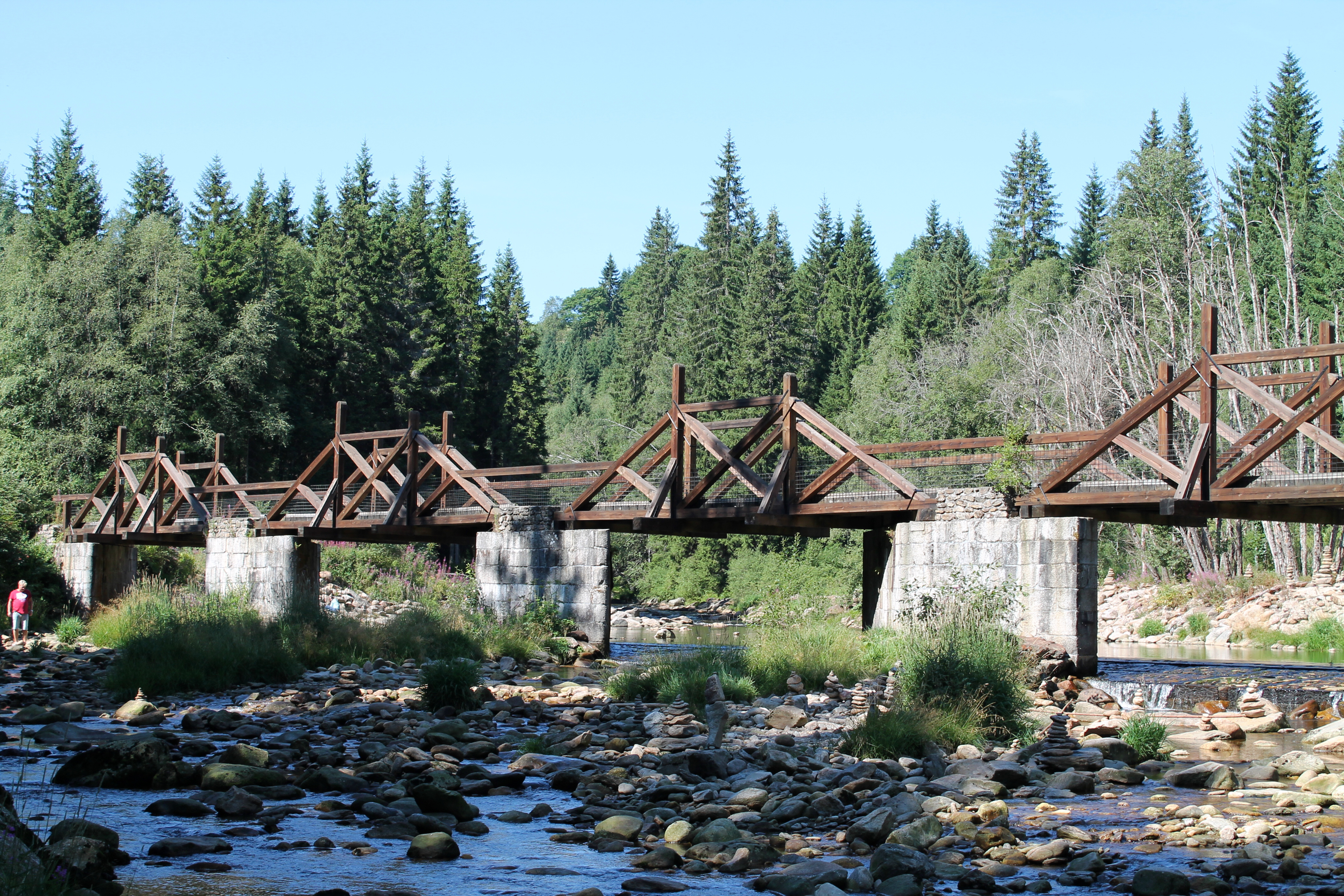 Rechle, Vchynice-Tetov I, Srní/Modrava, Klatovy District, Czech Republic